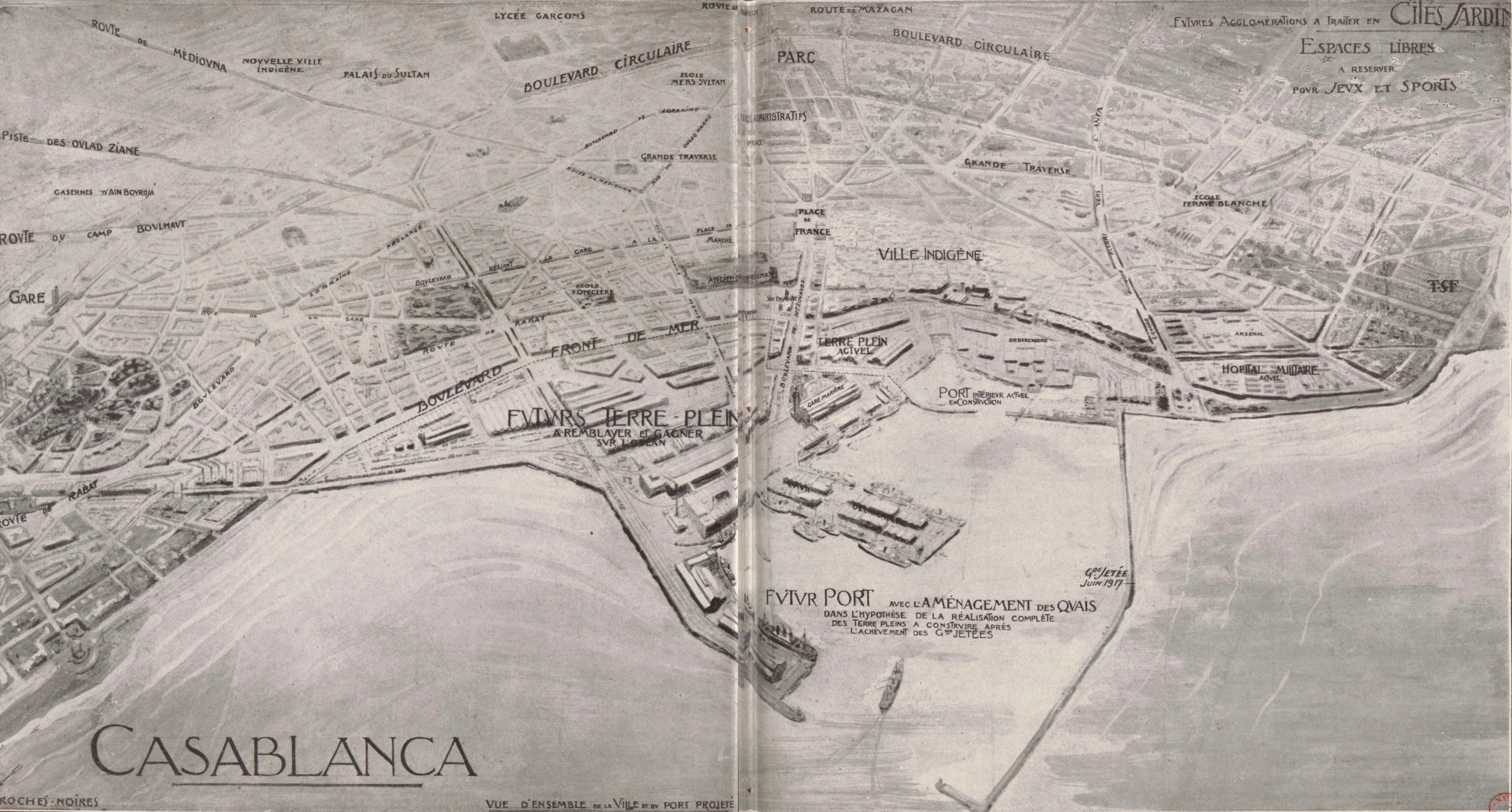 Overhead drawing of Casablanca's projected city and port, Henri Prost 1914, image published in the monthly illustrated magazine France-Maroc, dated August 15, 1917